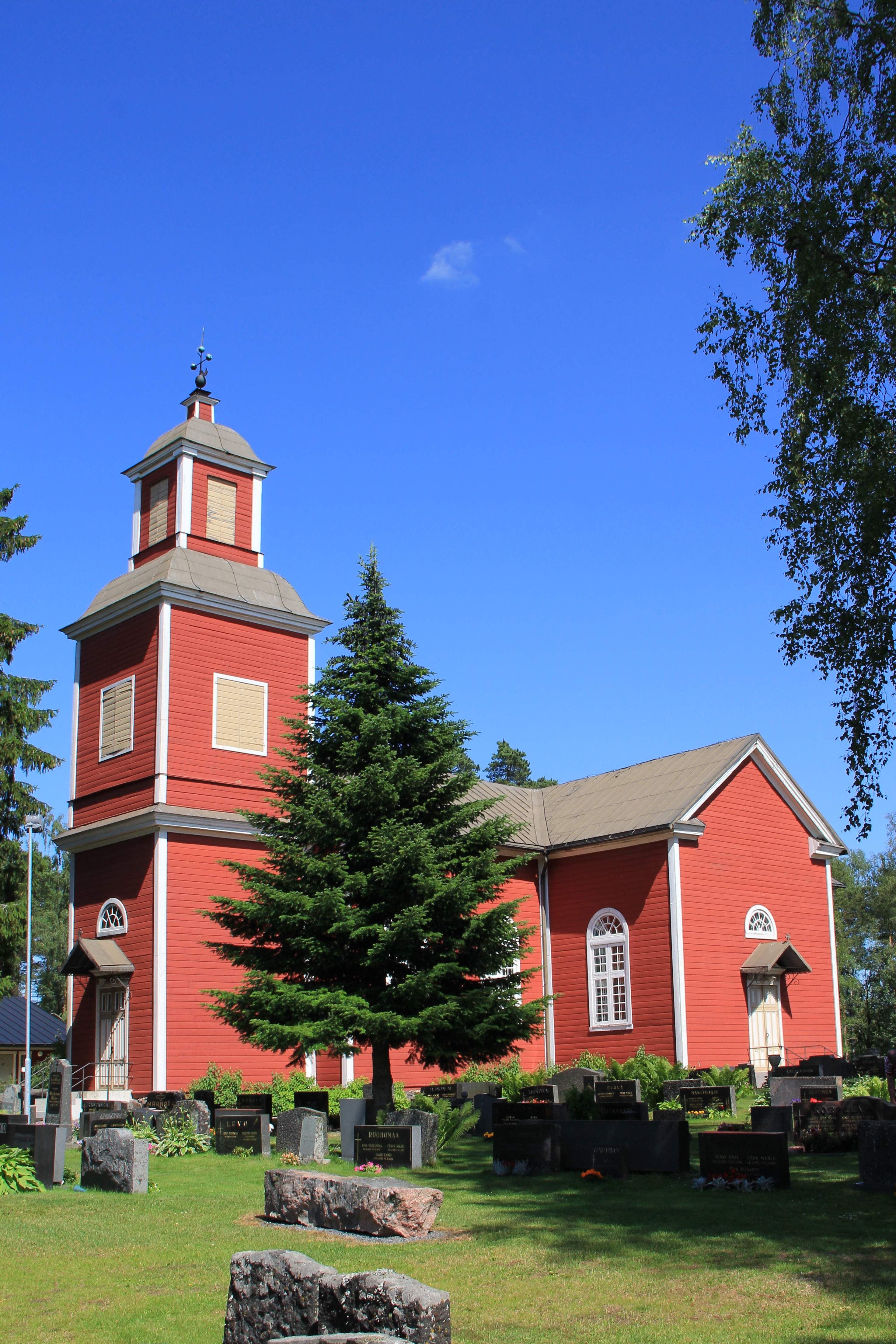 Oripää Church, Oripää, Finland. Designed by Charles (Carlo) Bassi, completed in 1821. -Seen from southwest.